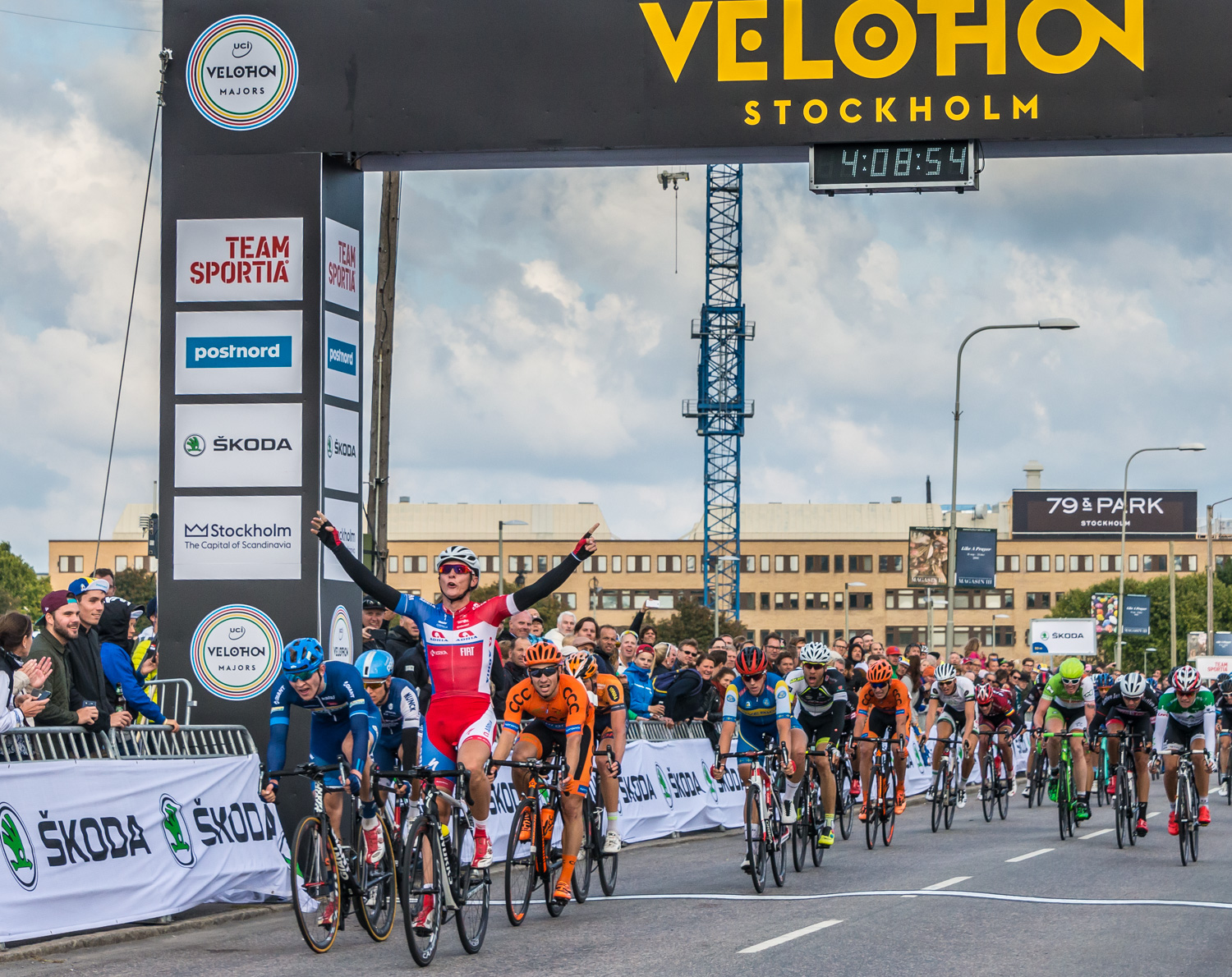 The winner Marko Kump in Velothon Stockholm in september 2015. Second Daniel Hoelgaard and third Grzegorz Stepniak.